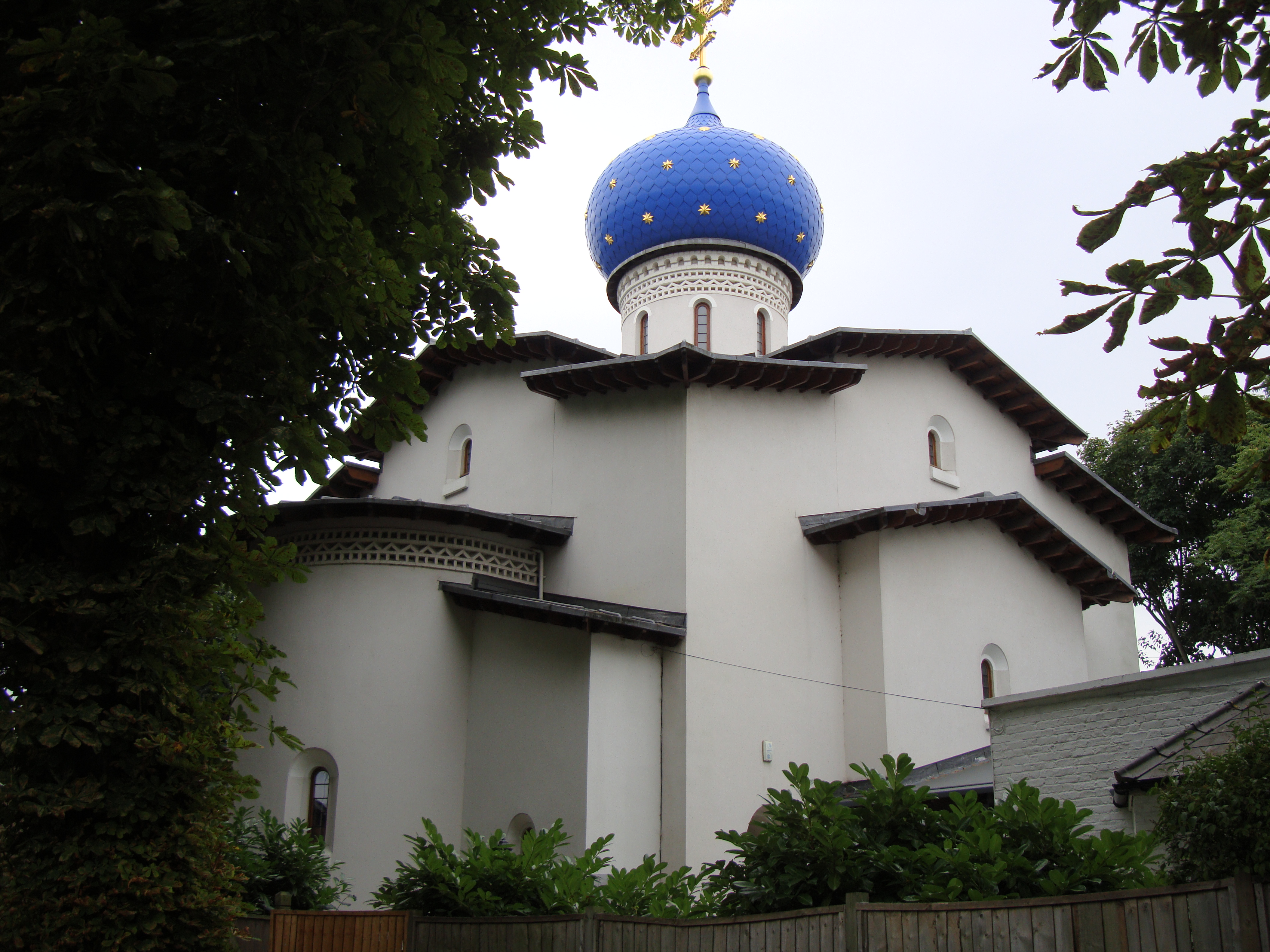 Photograph of the Russian Orthodox Cathedral of the Dormition of the Most Holy Mother of God and Holy Royal Martyrs, Hounslow, London